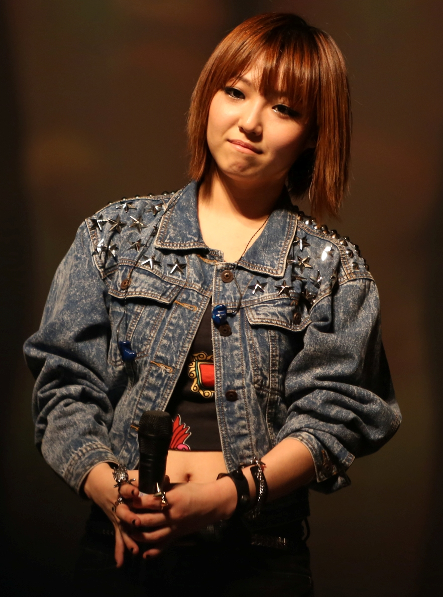 Min of Miss A performing at Star Performing Arts Centre, Singapore in Feb 2012